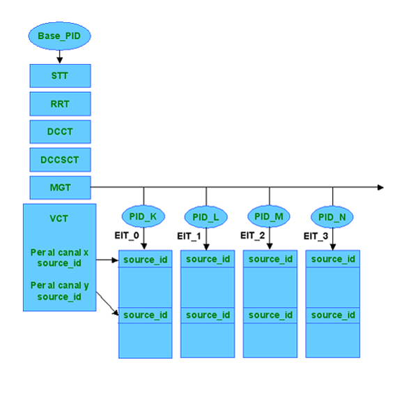 Generic Structure of PSIP protocol Tables